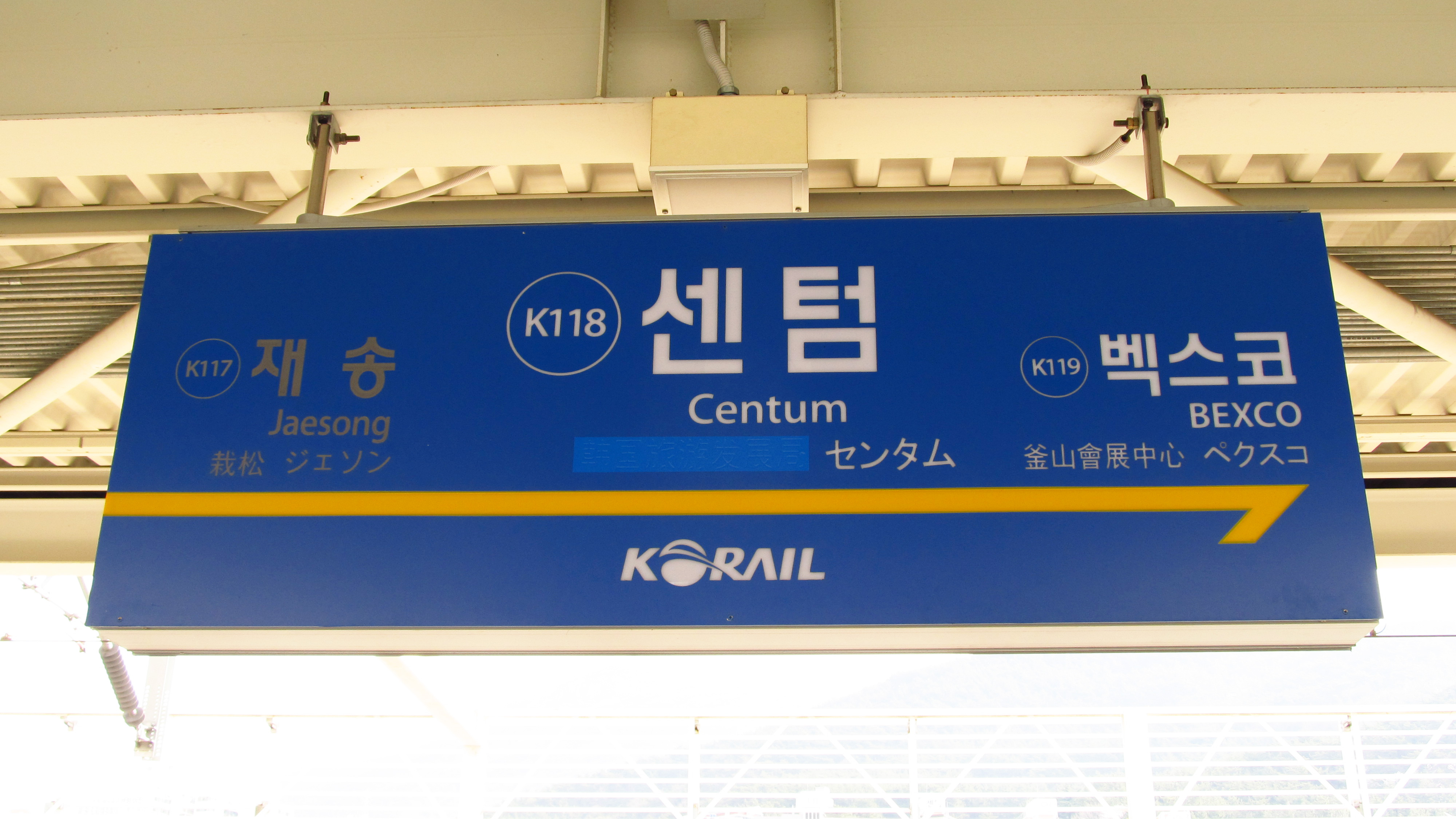 The station sign at Centum Station on the Donghae Line in Haeundae-gu, Busan, Republic of Korea(South Korea)